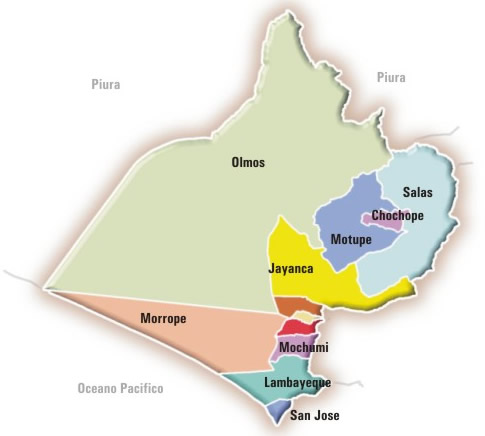 Politice map of the Province of Lambayeque. Here is the historic Forest Sanctuary Pómac.